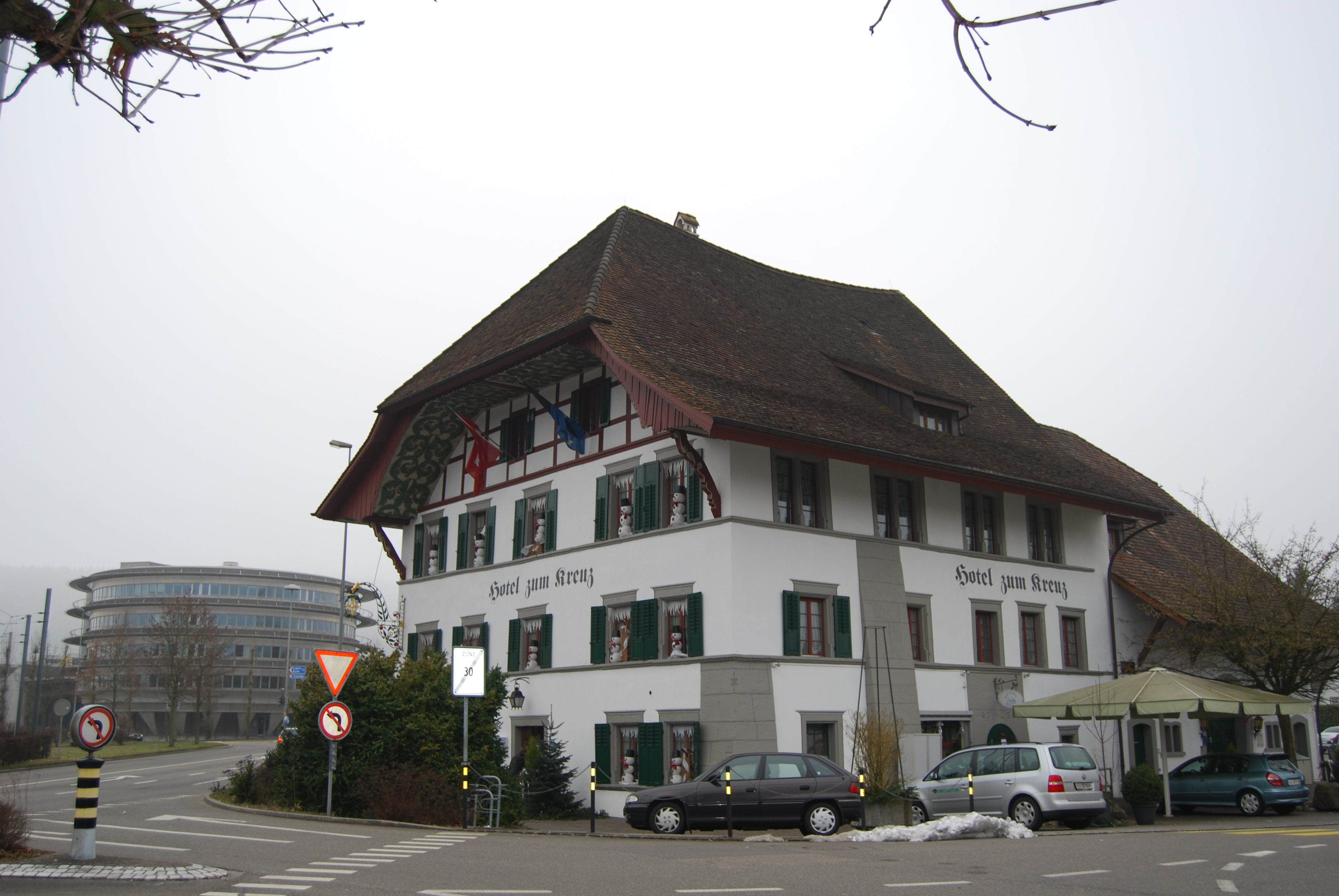 Hotel zum Kreuz at Suhr, canton of Aargau, Switzerland